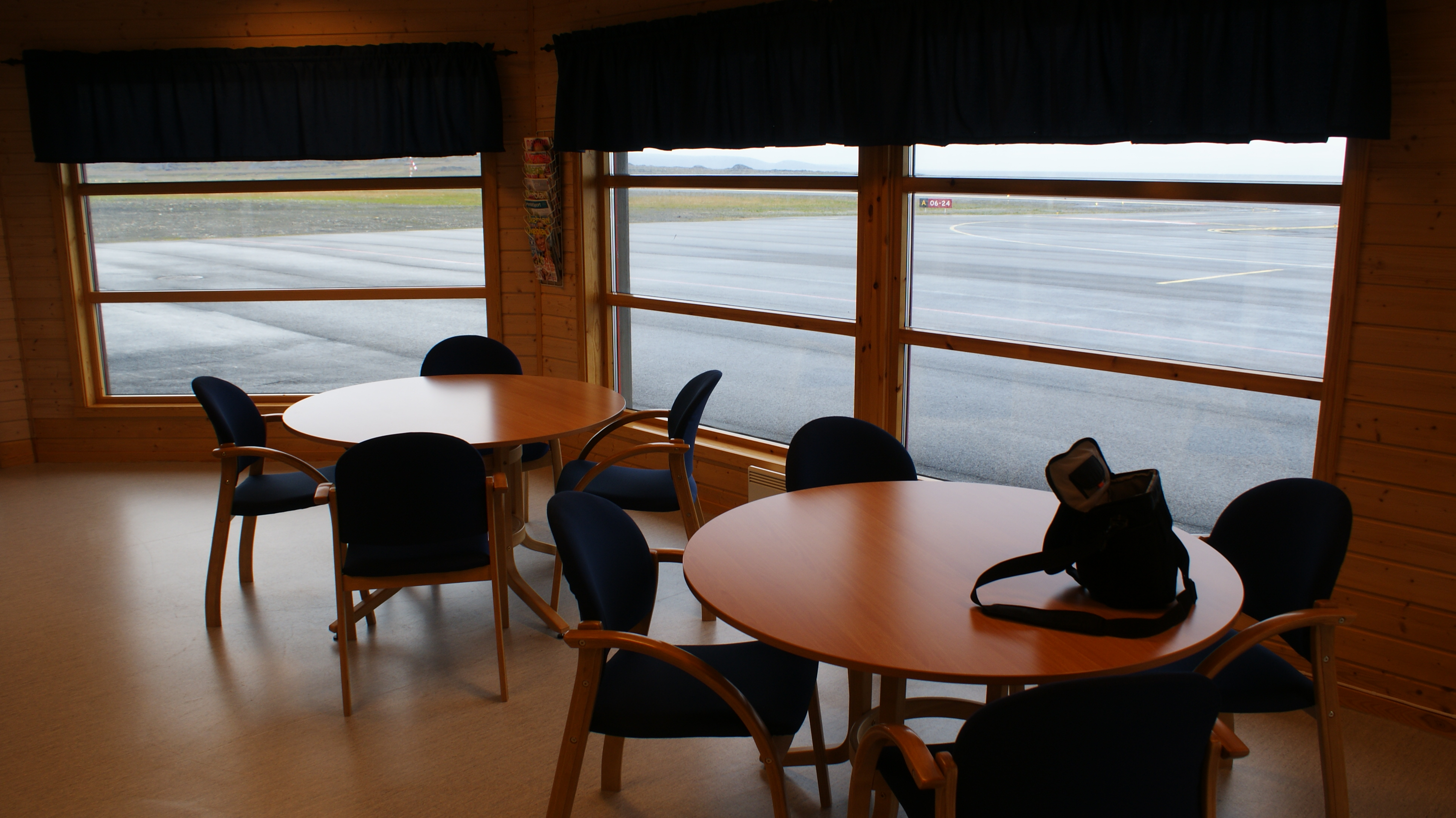 Berlevåg Airport, Varangerhalvøya, Finnmark, Norway. Airside waiting area.